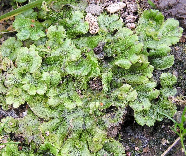 Marchantia polymorpha. Moscow region, Russia.